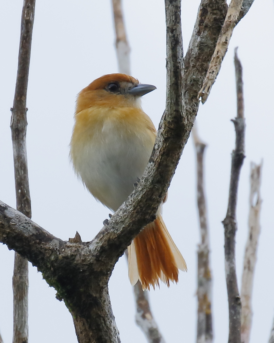 Cinereous becard (female) at Presidente Figueiredo, Amazonas, Brazil